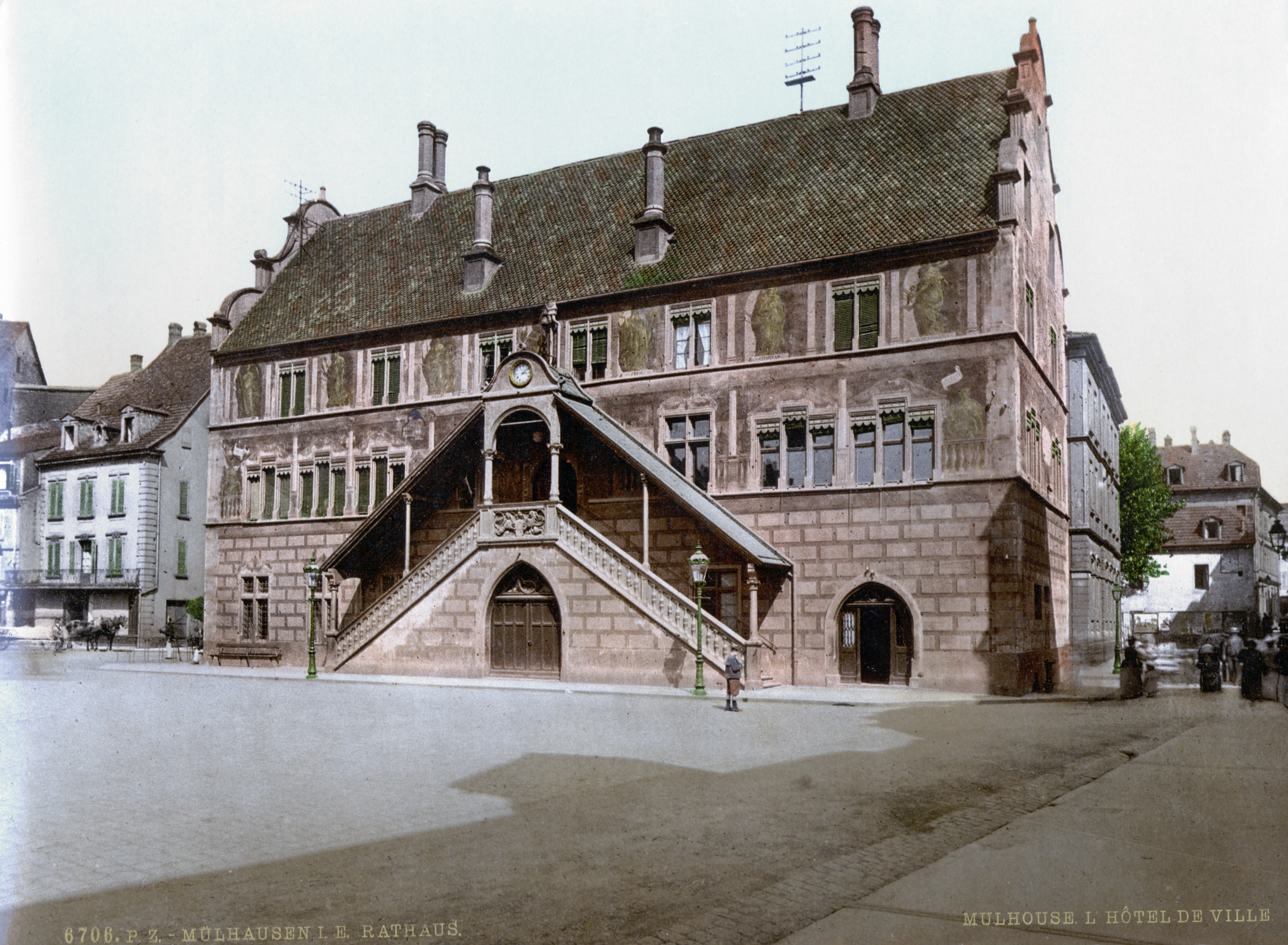 Town hall of Mulhouse, Alsace Lorraine, Germany, today in France